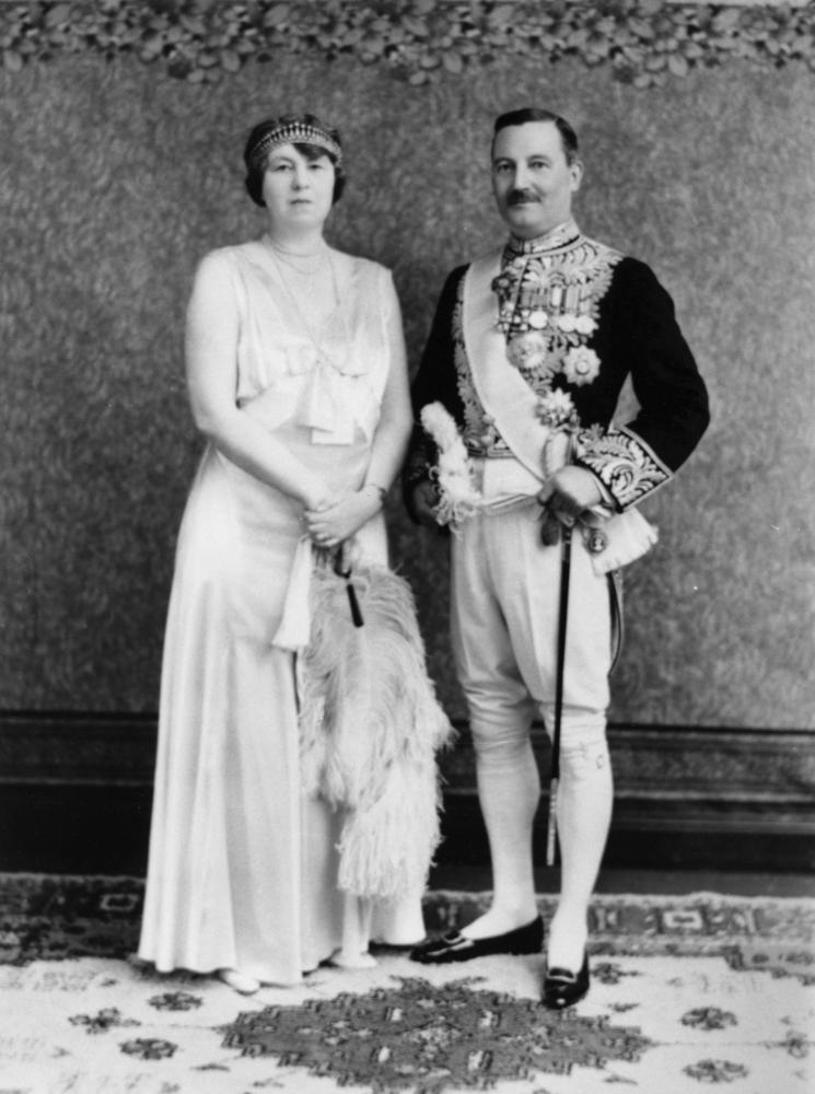 Sir Leslie and Lady Winifred May Wilson, ca. 1933